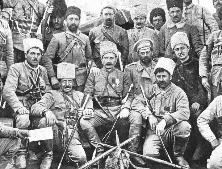 General Andranik